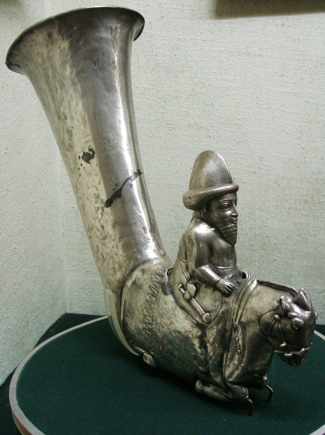 Achaemenid goblet (Erebuni Museum)